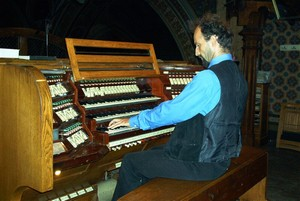 Vitomir Ivanjek plays the organ at St Joseph's Roman-Catholic Cathedral in Bucharest (2003)